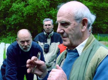 British military historian and author Martin Middlebrook speaks on a tour of a cemetery where war dead from the Somme are buried